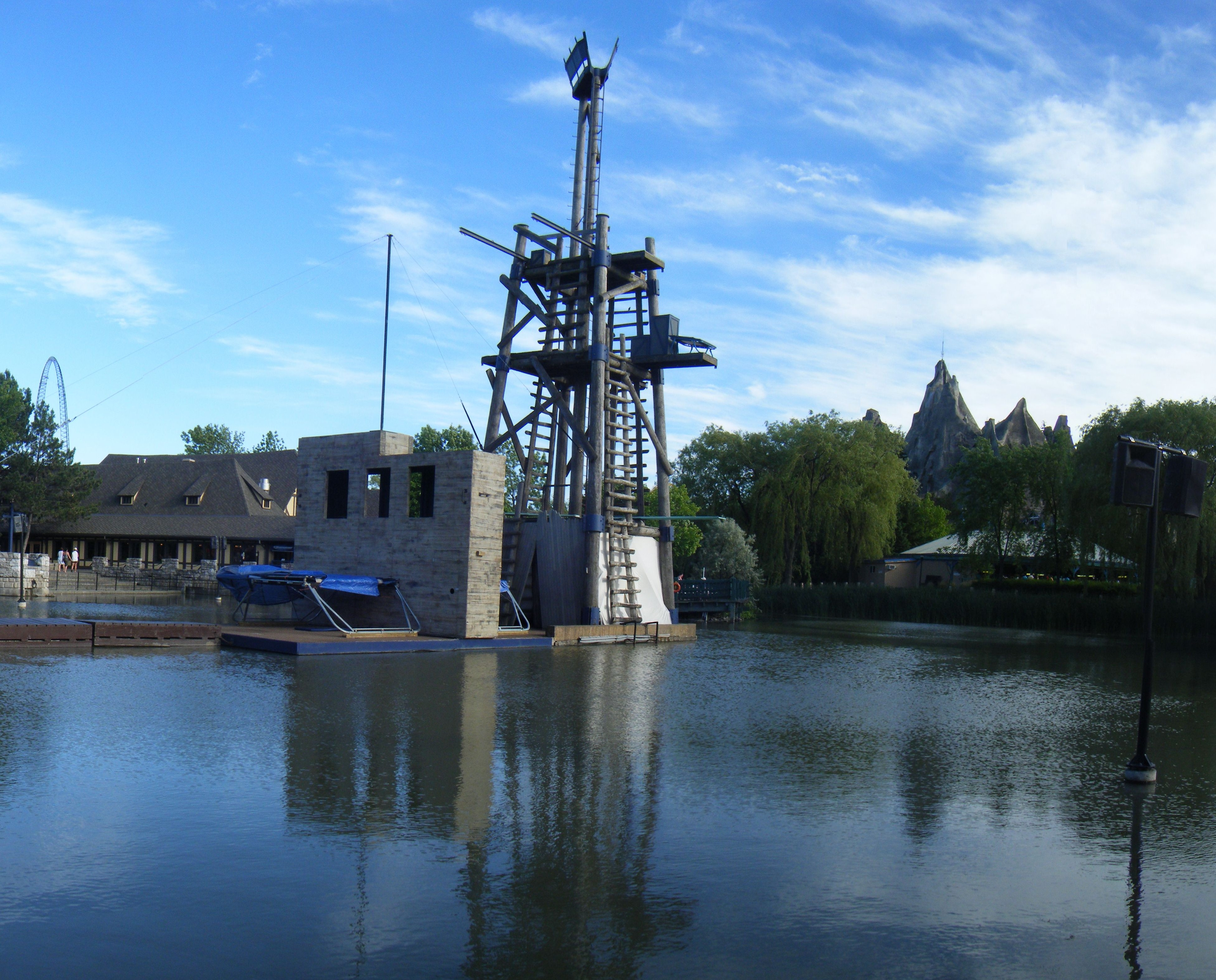 The structure in Arthur's Baye, for the dive and acrobatics show.